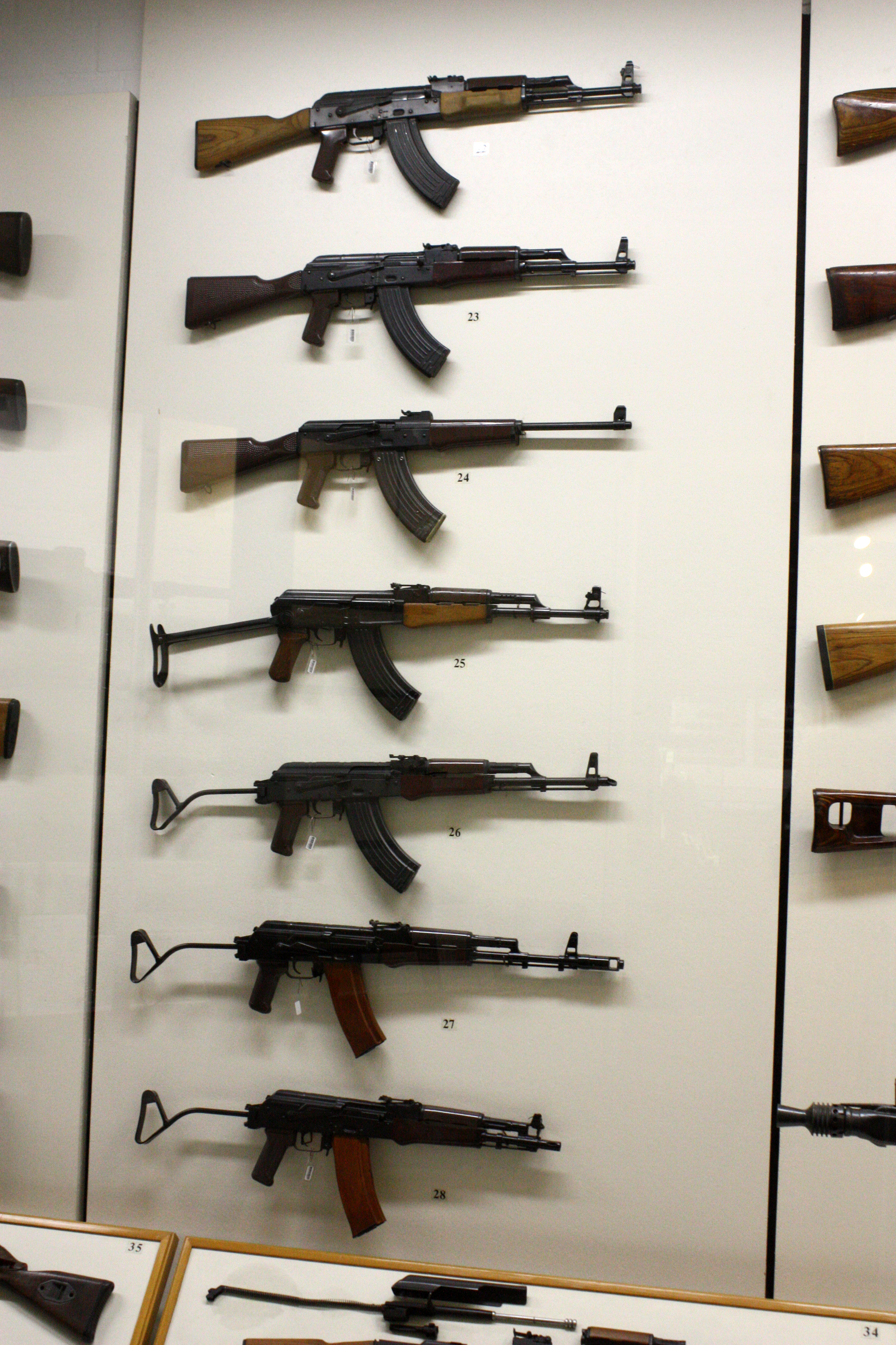 From top to bottom: MPi-K, MPi-Km 72, MPi 69, MPi-KMS, MPi-KmS 72, MPi-AKS 74, MPi-AKS 74NK, German Tank Museum Munster.